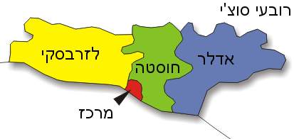 sochi's rayons